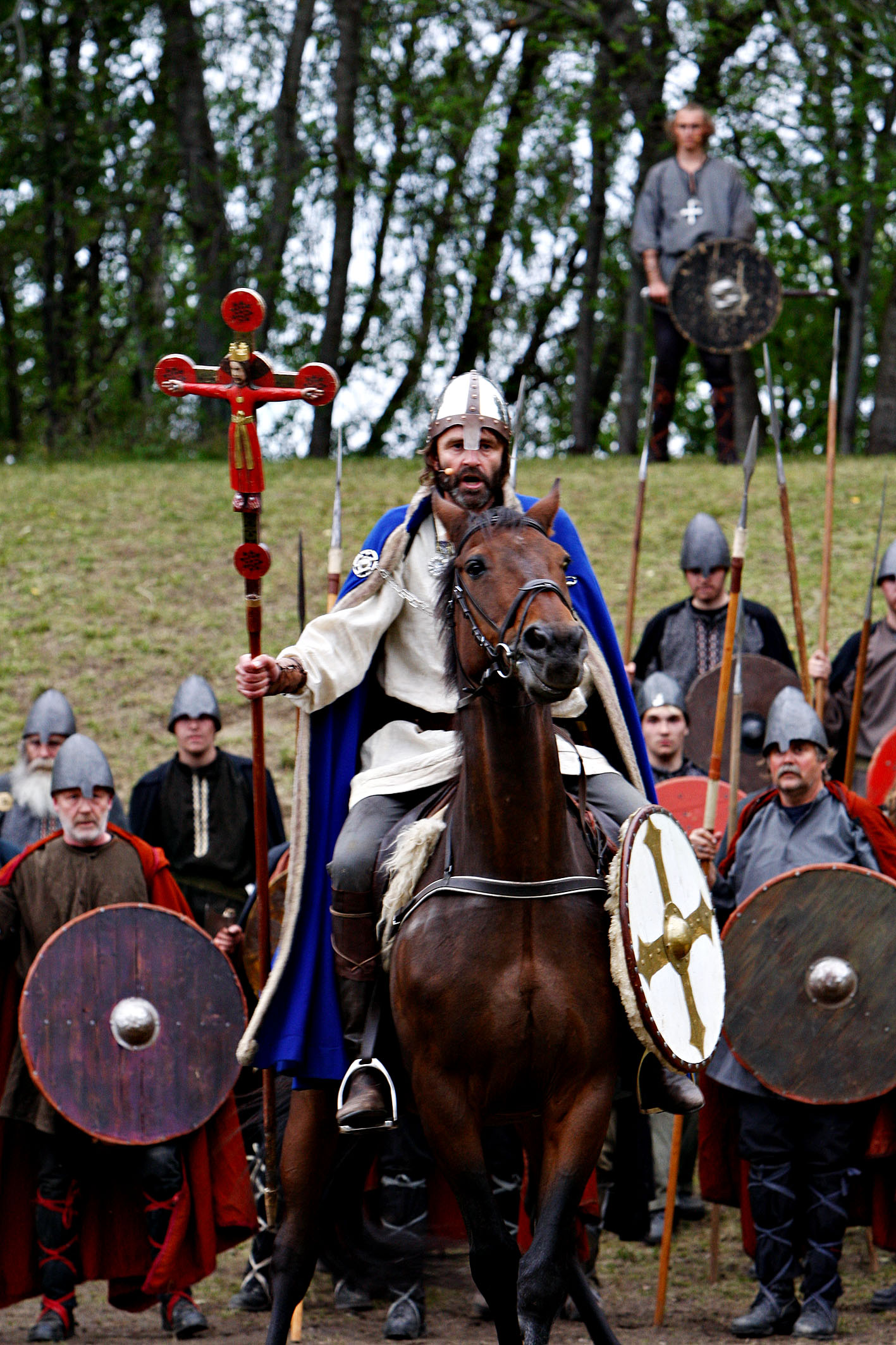 Norwegian actor Lasse Kolsrud as king Olaf II of Norway in the The Saint Olav Drama at Stiklestad 2008. Foto: LEIF ARNE HOLME